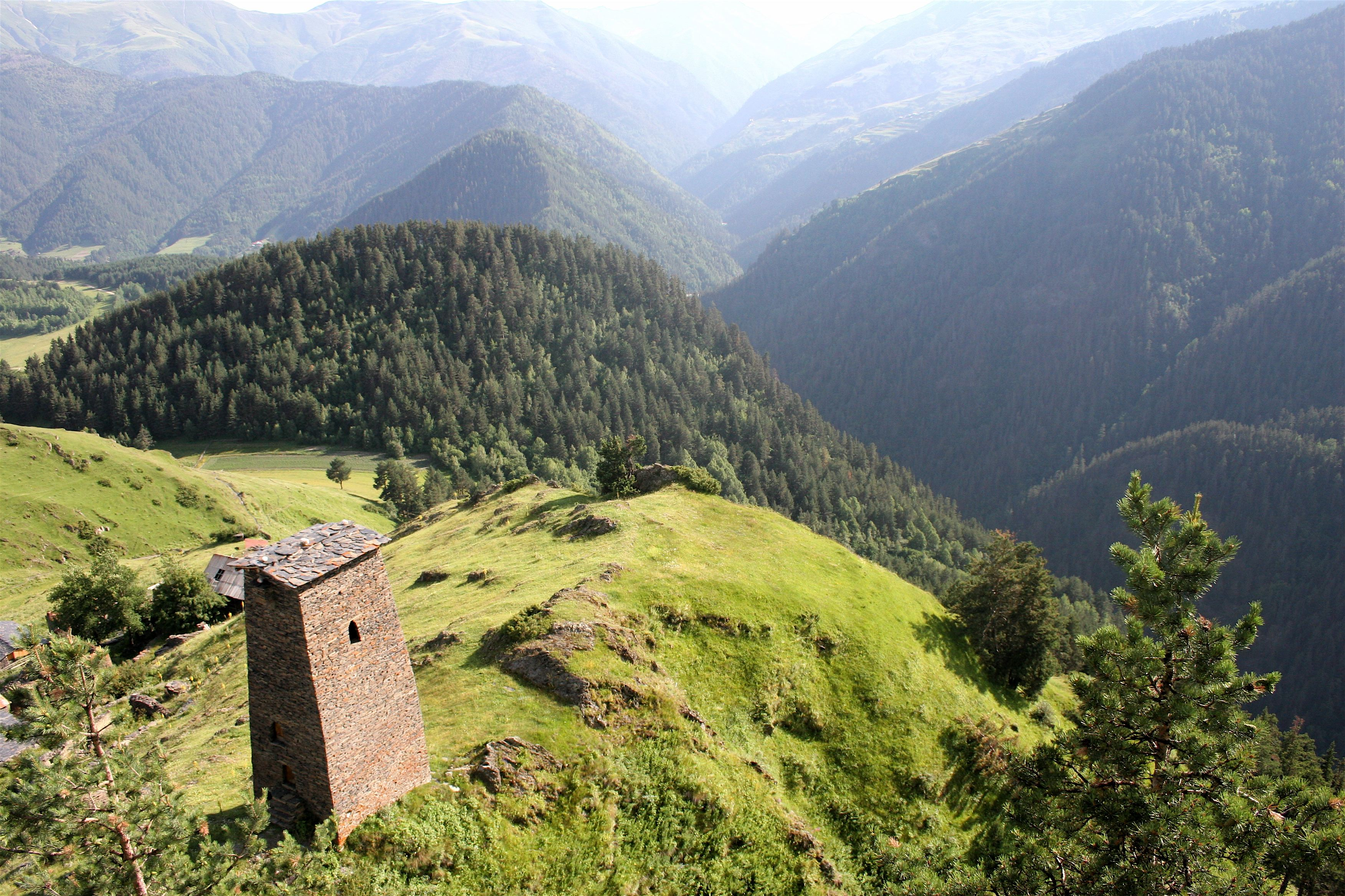 Omalo, Tusheti. View from Keselo fort. Georgia.